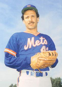 Professional baseball player Bob Ojeda